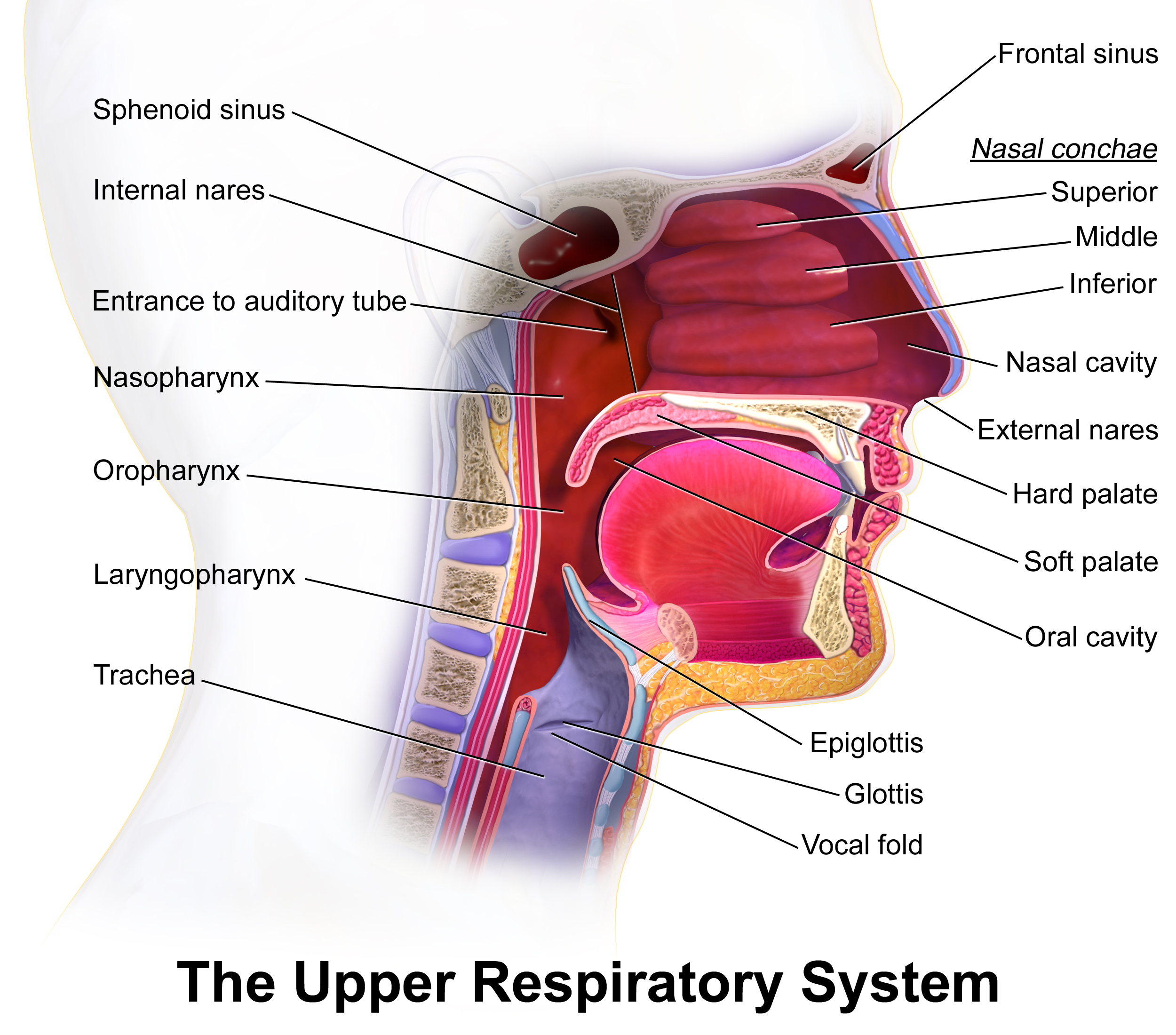 Upper Respiratory System. See a related animation on this medical topic